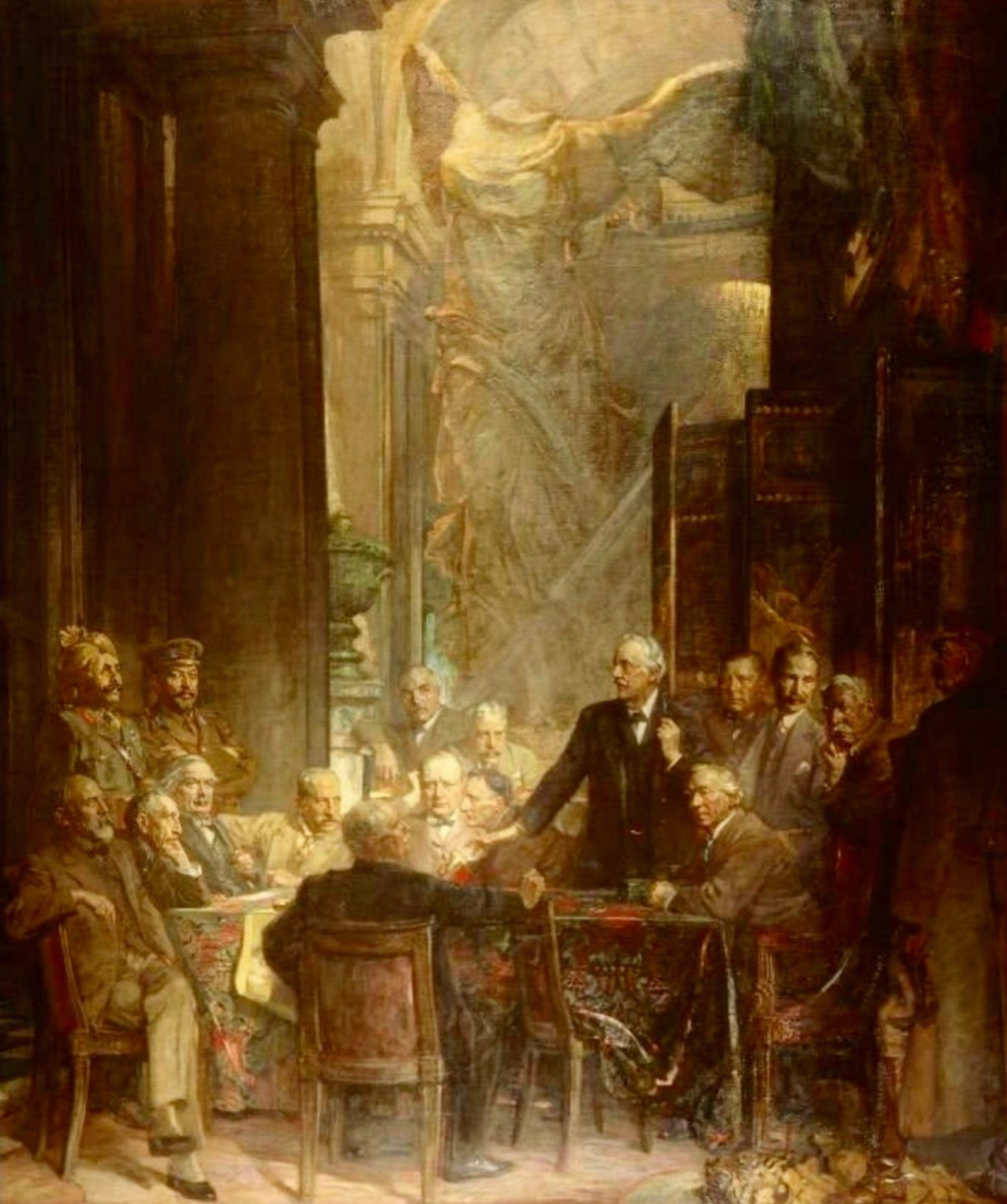 This is a famous fictional painting of English leaders in France, at the lowest point of World War I. Lord Milner is seated on the left, between Lloyd George and Winston Churchill. Up high is pictured the headless goddess of victory.